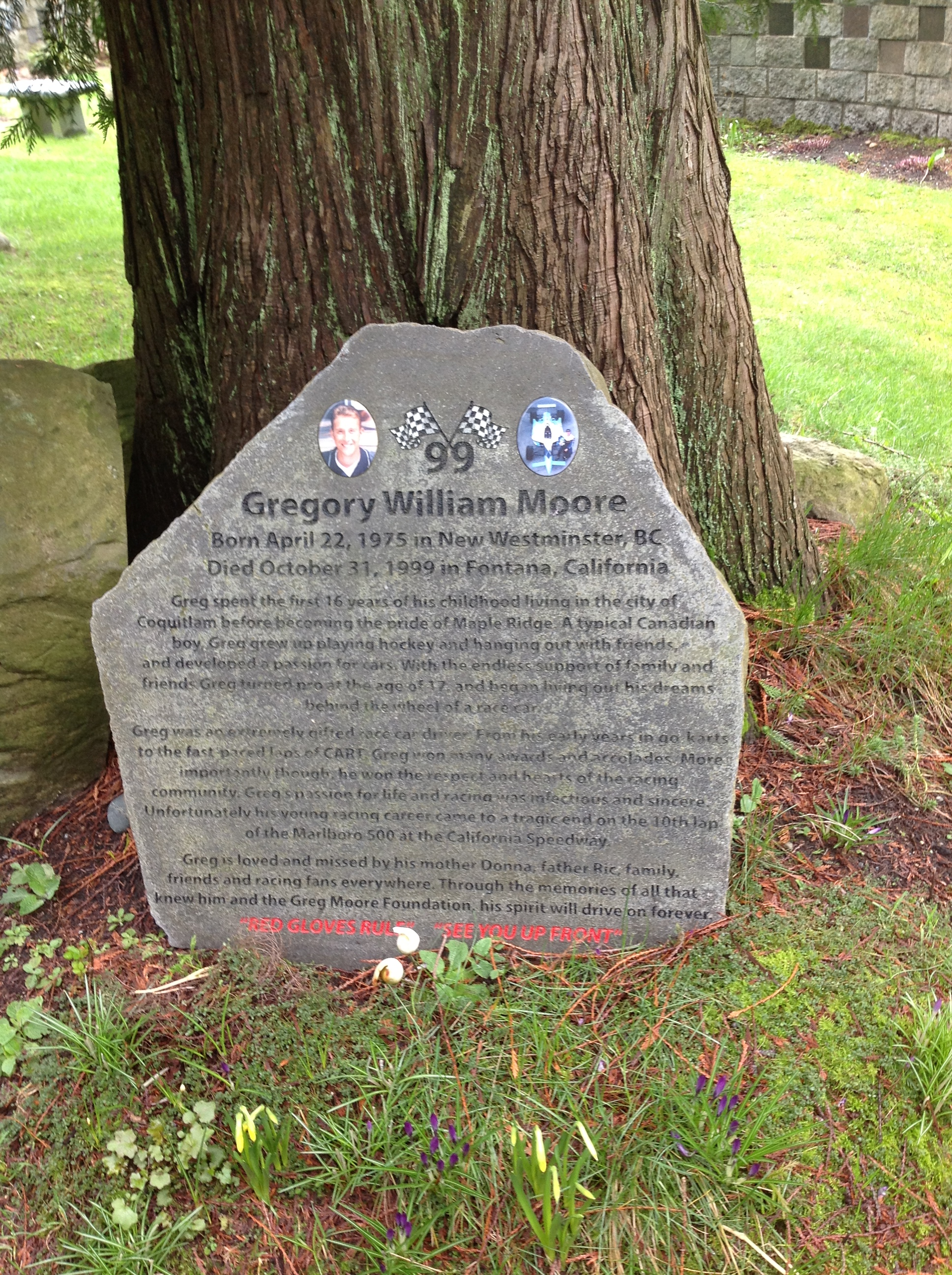 Photo of Greg Moore's memorial at Robinson Memorial Park Cemetery.